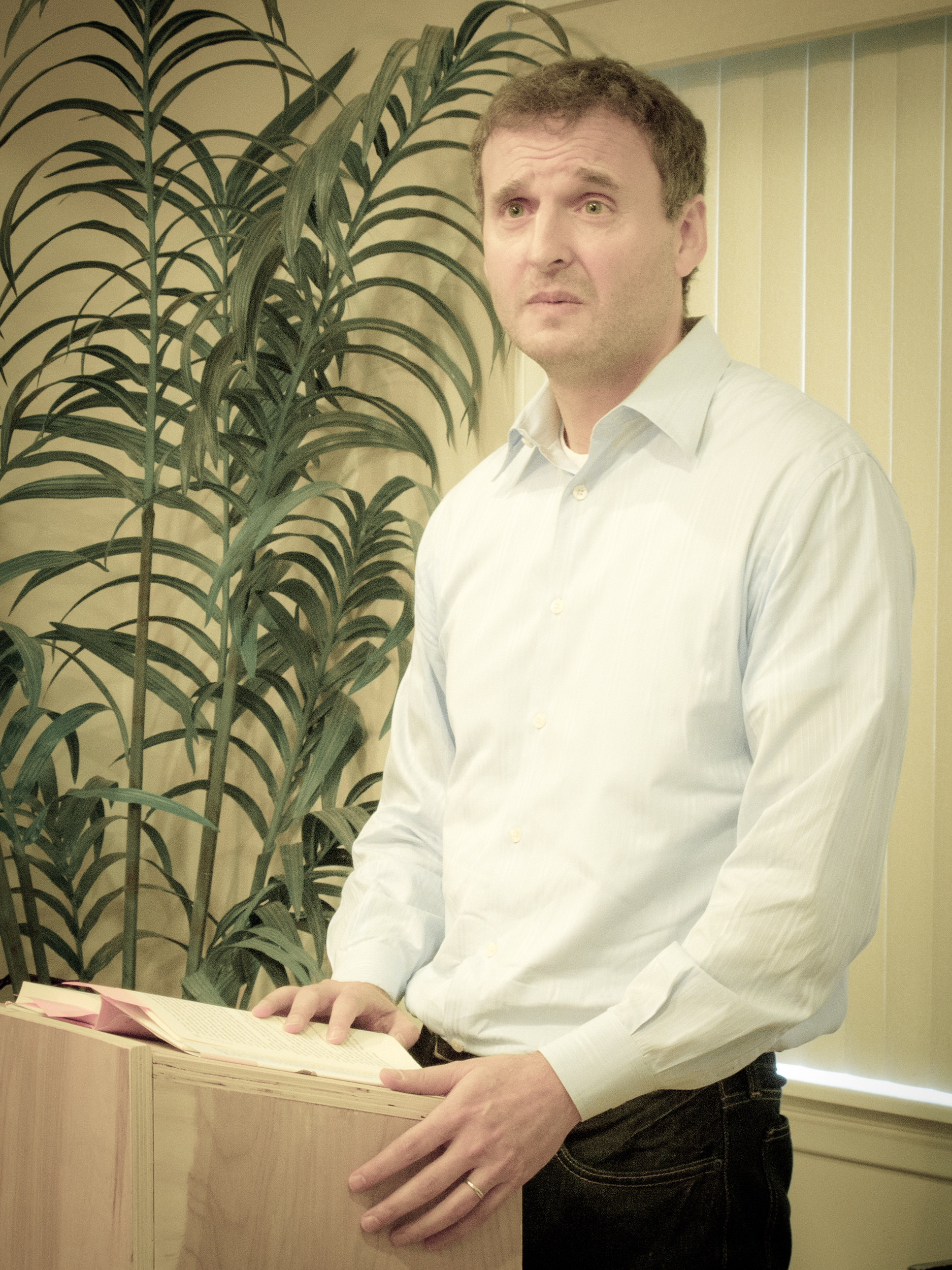 Phil Rosenthal at the Women Who Write event in May 2011.